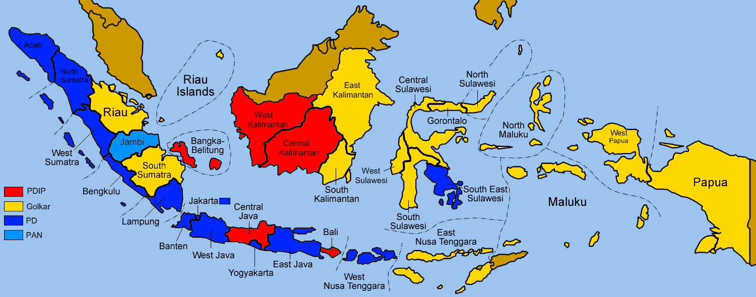 Map showing parties with the largest share in each province in the 2004 Indonesian legislative election. Adapted from Indonesia provinces english.png created by User:Golbez